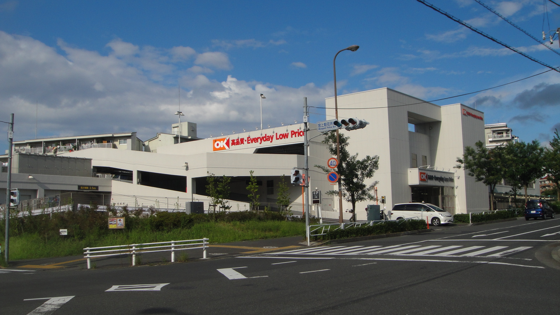 OK store in Hachioji.